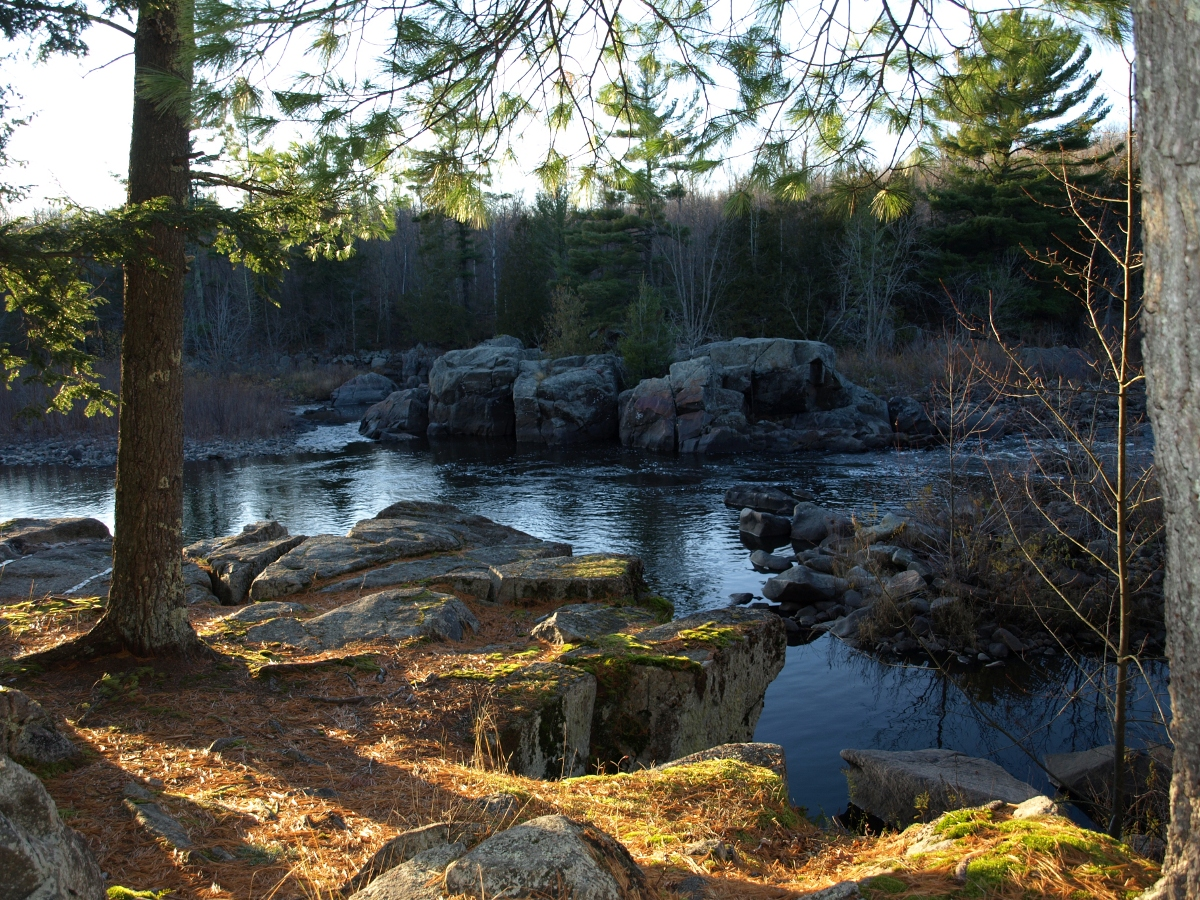 Exposed pre-Cambrian rock at about the midway point of Grandfather Falls in Lincoln County, Wisconsin.